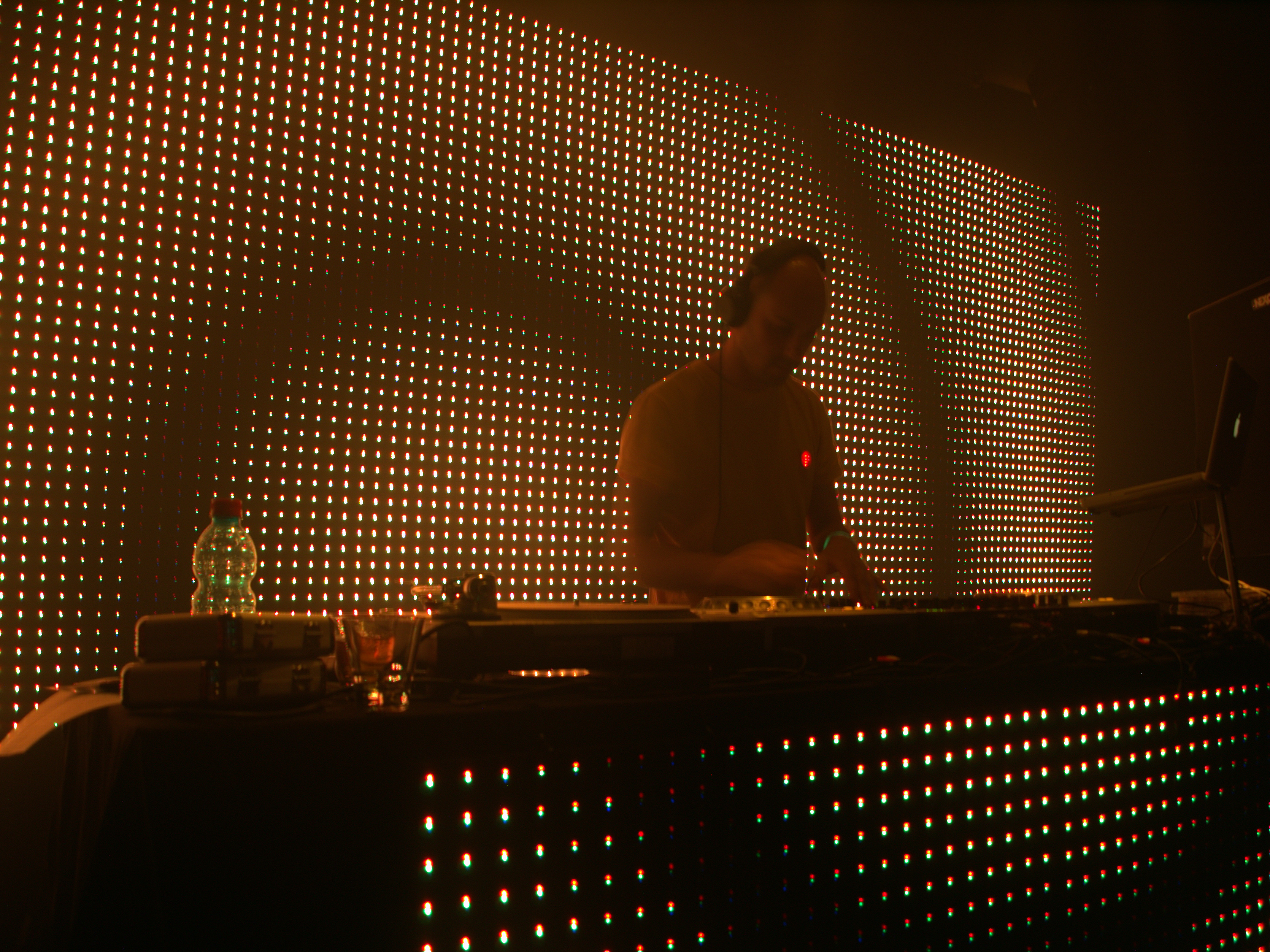 LED display at nightclub Barzilay in Tel Aviv, Israel when Tsach Zimroni was spinning.